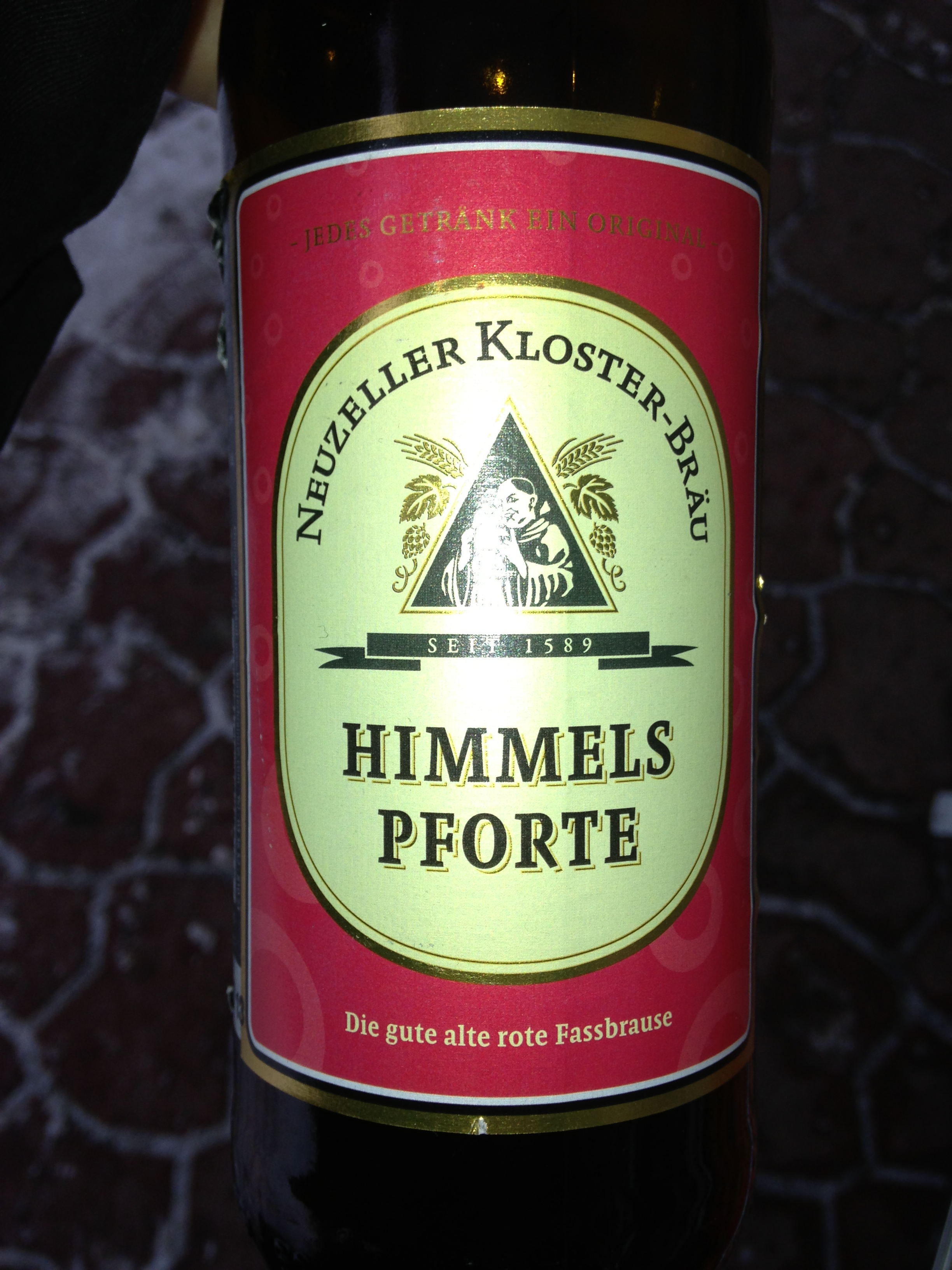 German Beer "Himmels Pforte"